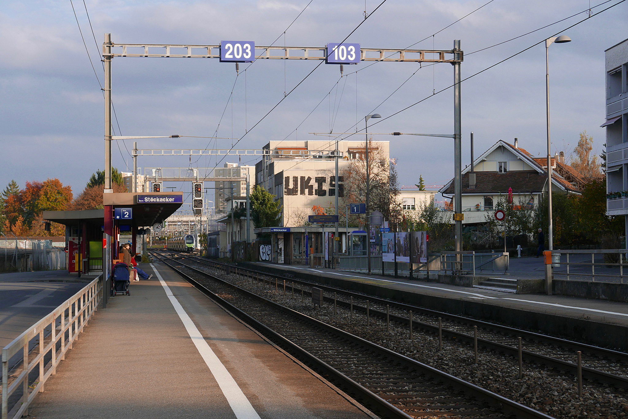 Bern Stöckacker railway station.